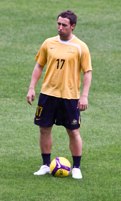 Scott McDonald after a training session at ANZ Stadium the day before a World Cup Qualifying game against Uzbekistan.